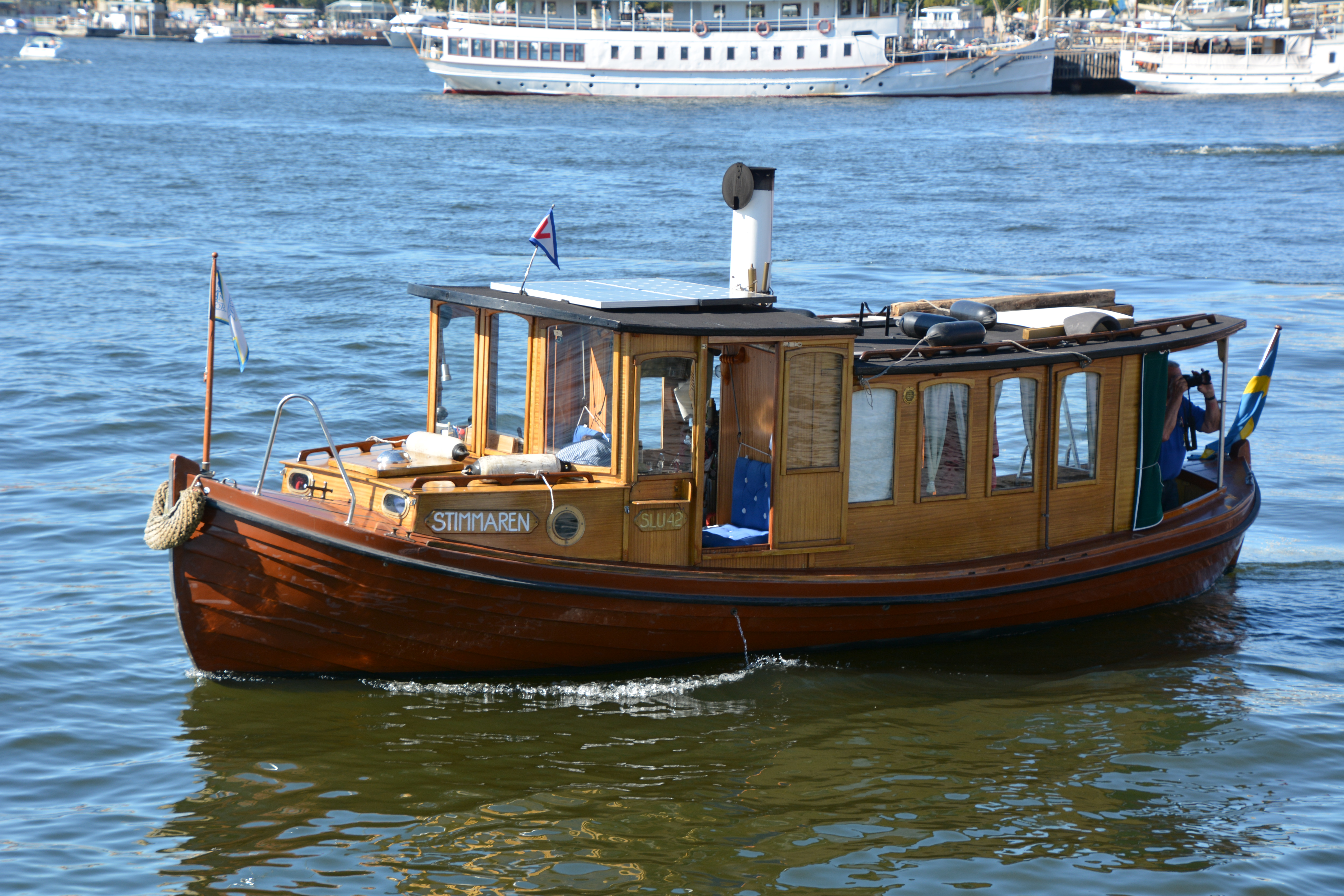 S/S Stimmaren